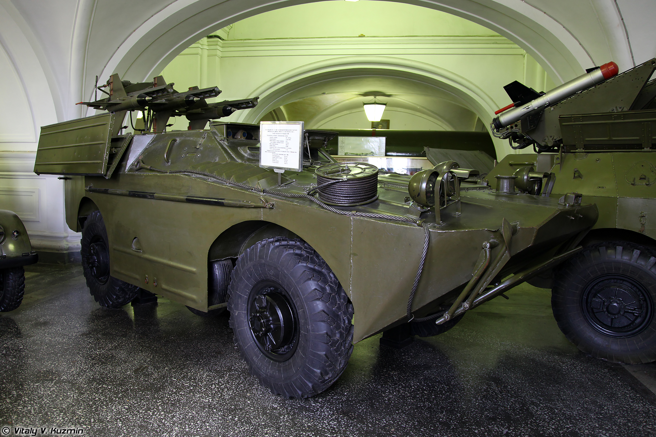 2P27 combat vehicle 2K16 Shmel ATGM system